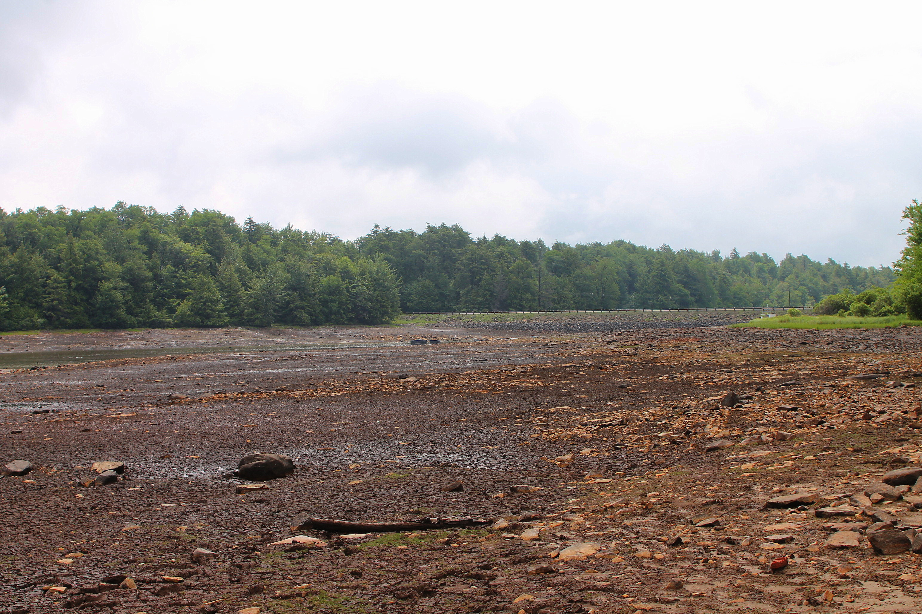 Lake Jean in a partially drained state in June 2015. Taken from the western boat launch